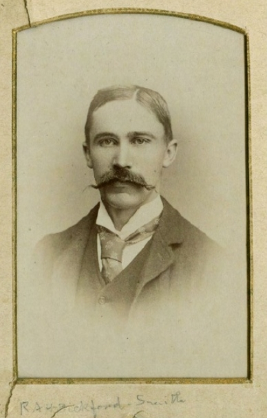 R. A. H. Bickford-Smith BSA Photographic Archive BSAA7–4